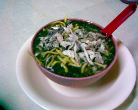 Chicken Manchow Soup